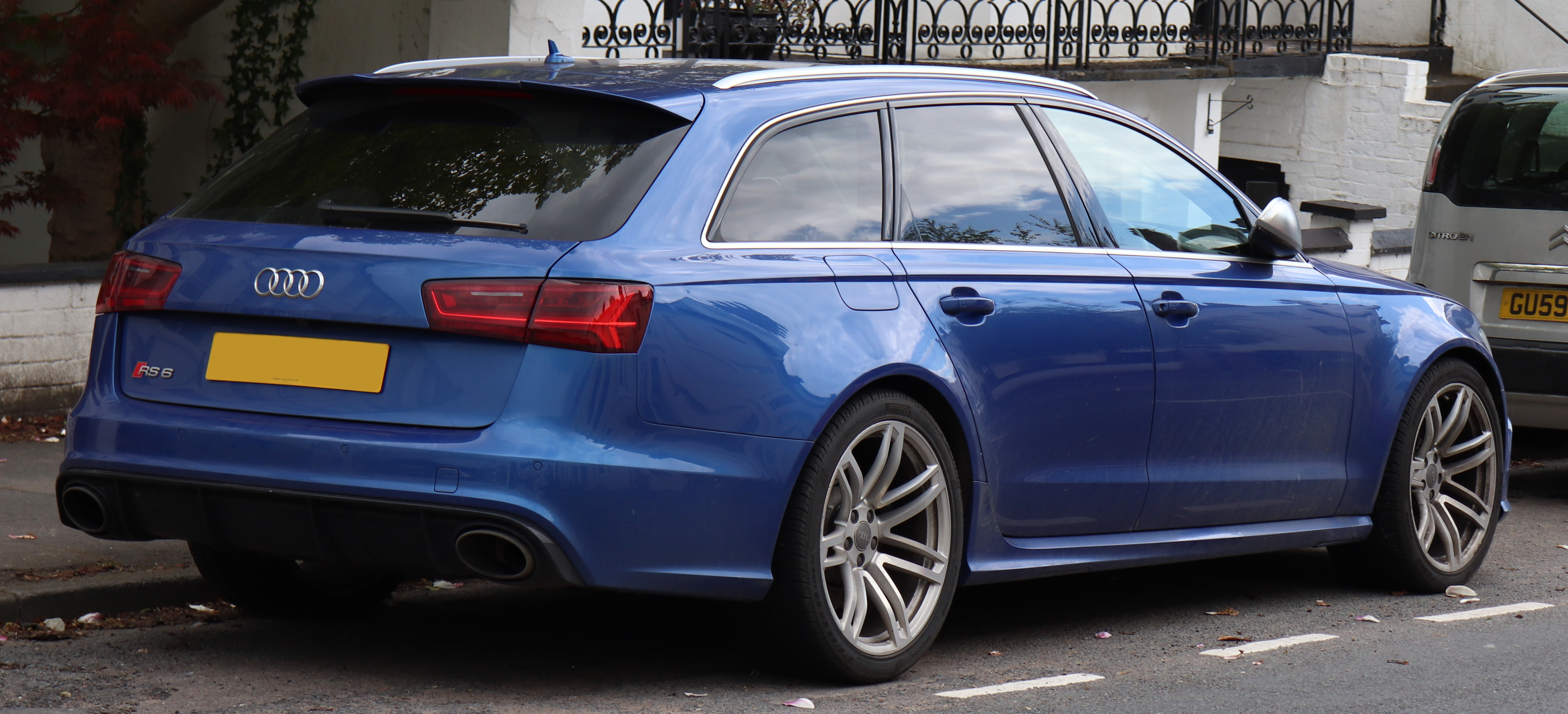 2015 Audi RS6 Avant TFSi Quattro Automatic 4.0 Rear Taken in Leamington Spa